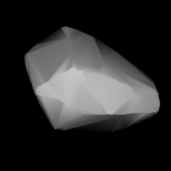 3D convex shape model of 1137 Raïssa, computed using light curve inversion techniques. J. Hanuš, J. Ďurech, M. Brož, B. D. Warner (June 2011). "A study of asteroid pole-latitude distribution based on an extended set of shape models derived by the lightcurve inversion method". Astronomy and Astrophysics 530: A134. ISSN 0004-6361. arXiv